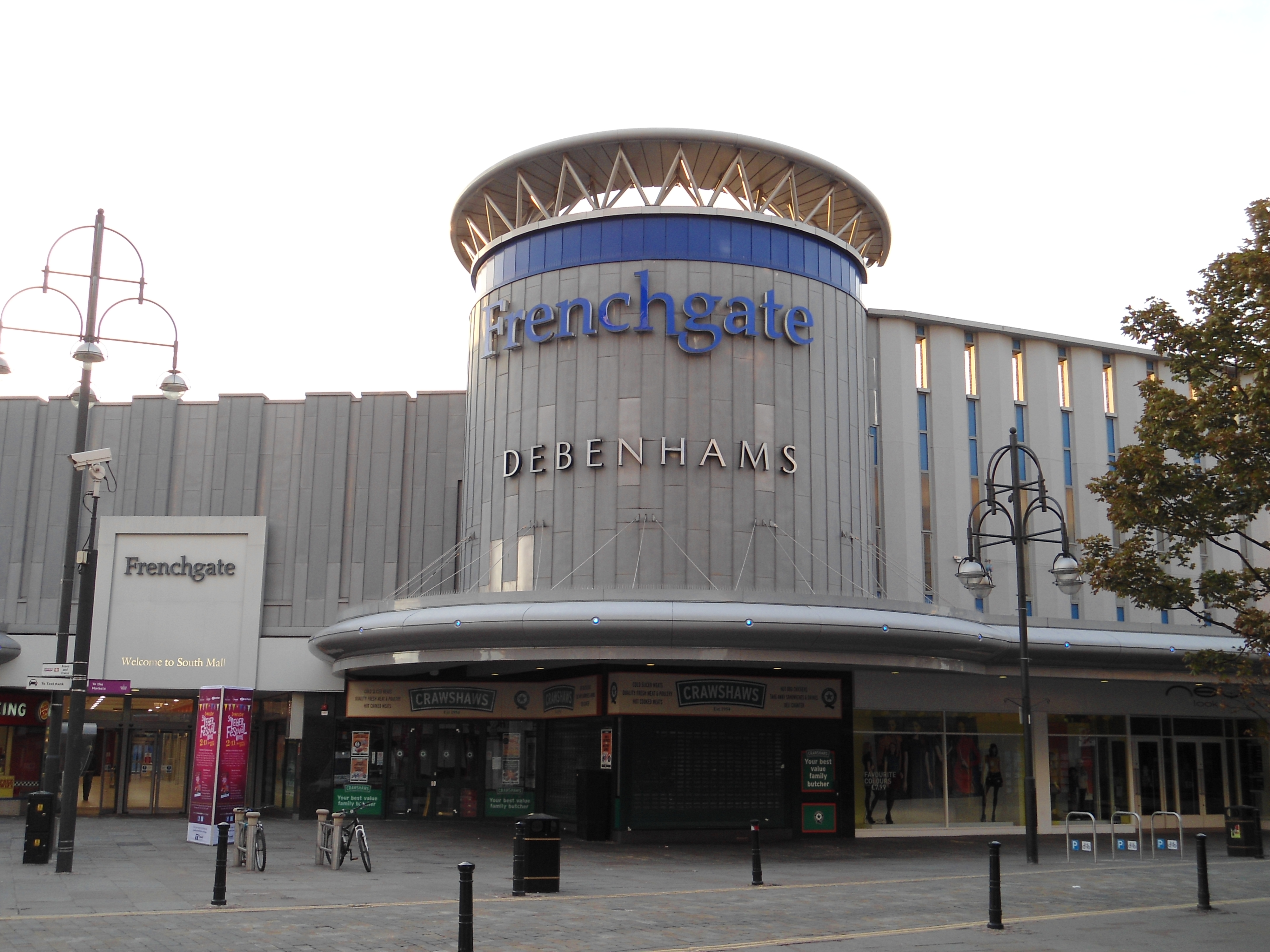 South entrance to Frenchgate Center in Doncaster, South Yorkshire, England